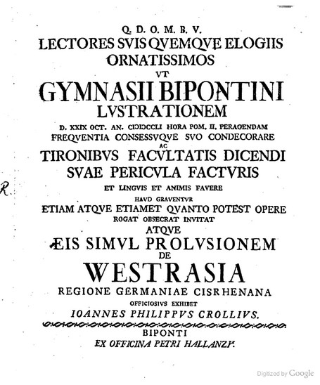 Johann Philipp Crollius (1693-1767), Lectores Svis Qvemqve Elogiis Ornatissimos Vt Gymnasii Bipontini ..., 1751